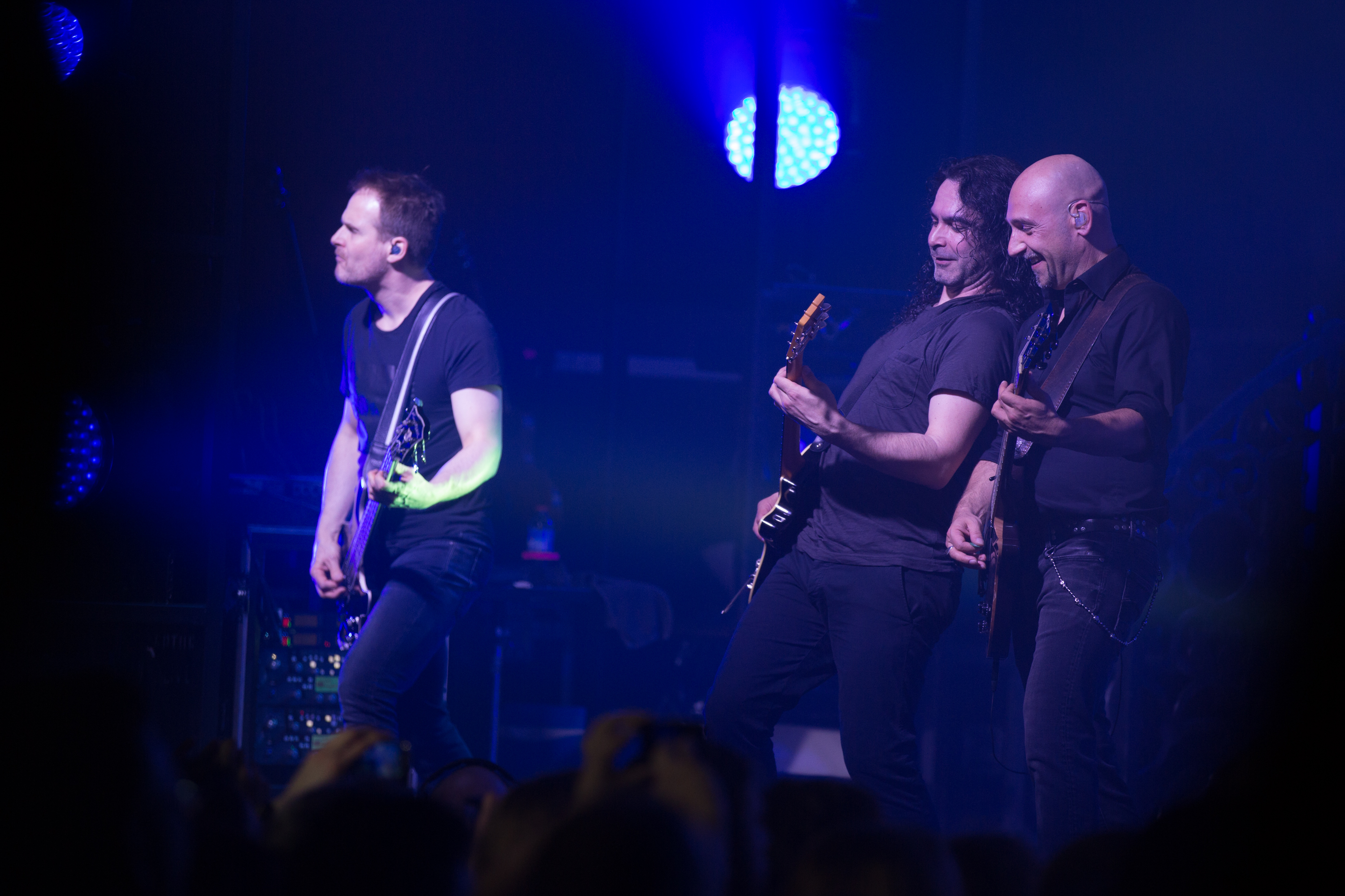 Avantasia at Turbinenhalle Oberhausen on 20th March 2016